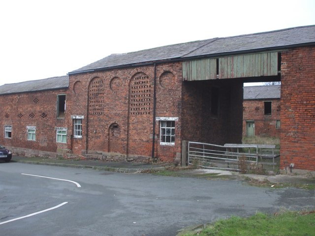 Old farm buildings, Hapsford, Cheshire